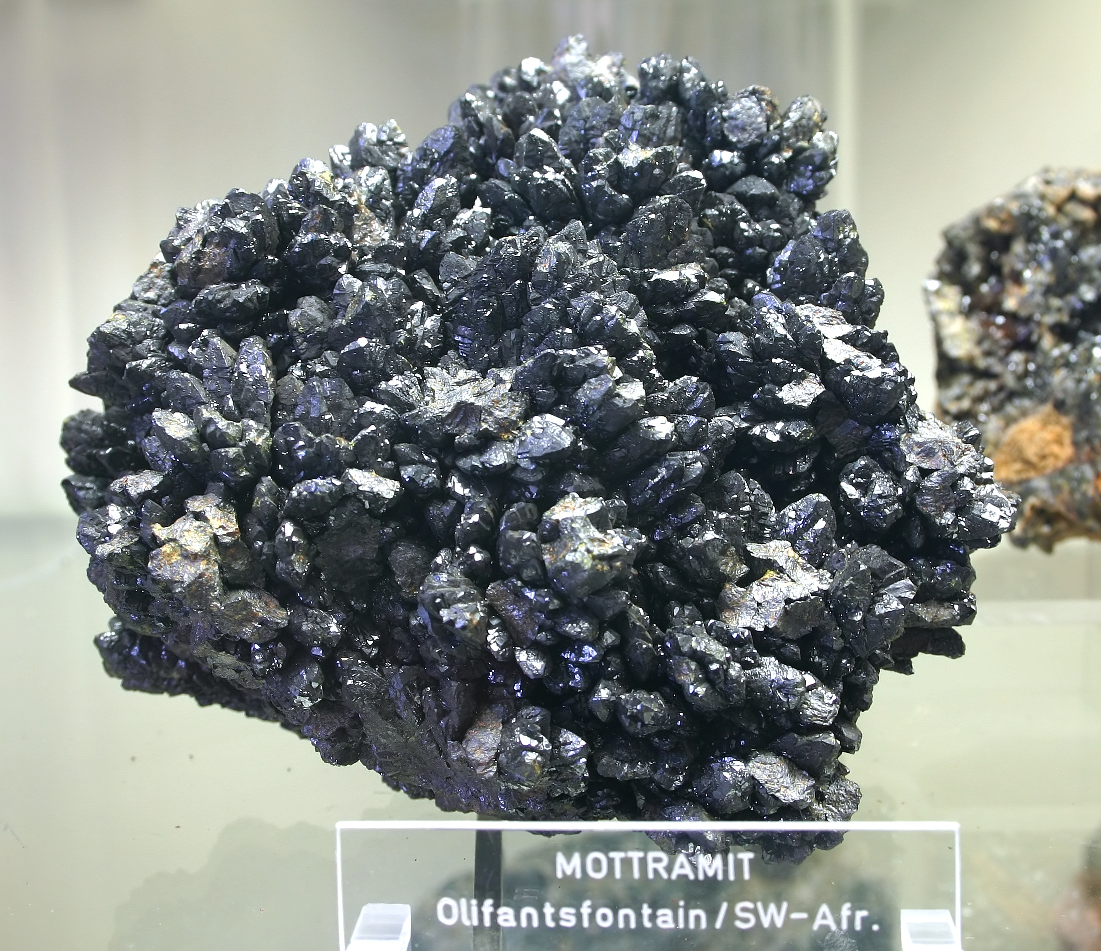 Mottramite. Locality: Olifantsfontain, Southwest Africa. Exposed in the Mineralogical Museum, Bonn, Germany